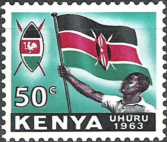 Stamp of Kenya depicting a native Kenyan holding the flag of Kenya and the country's ensignia. Cost 50 Kenyan cents.